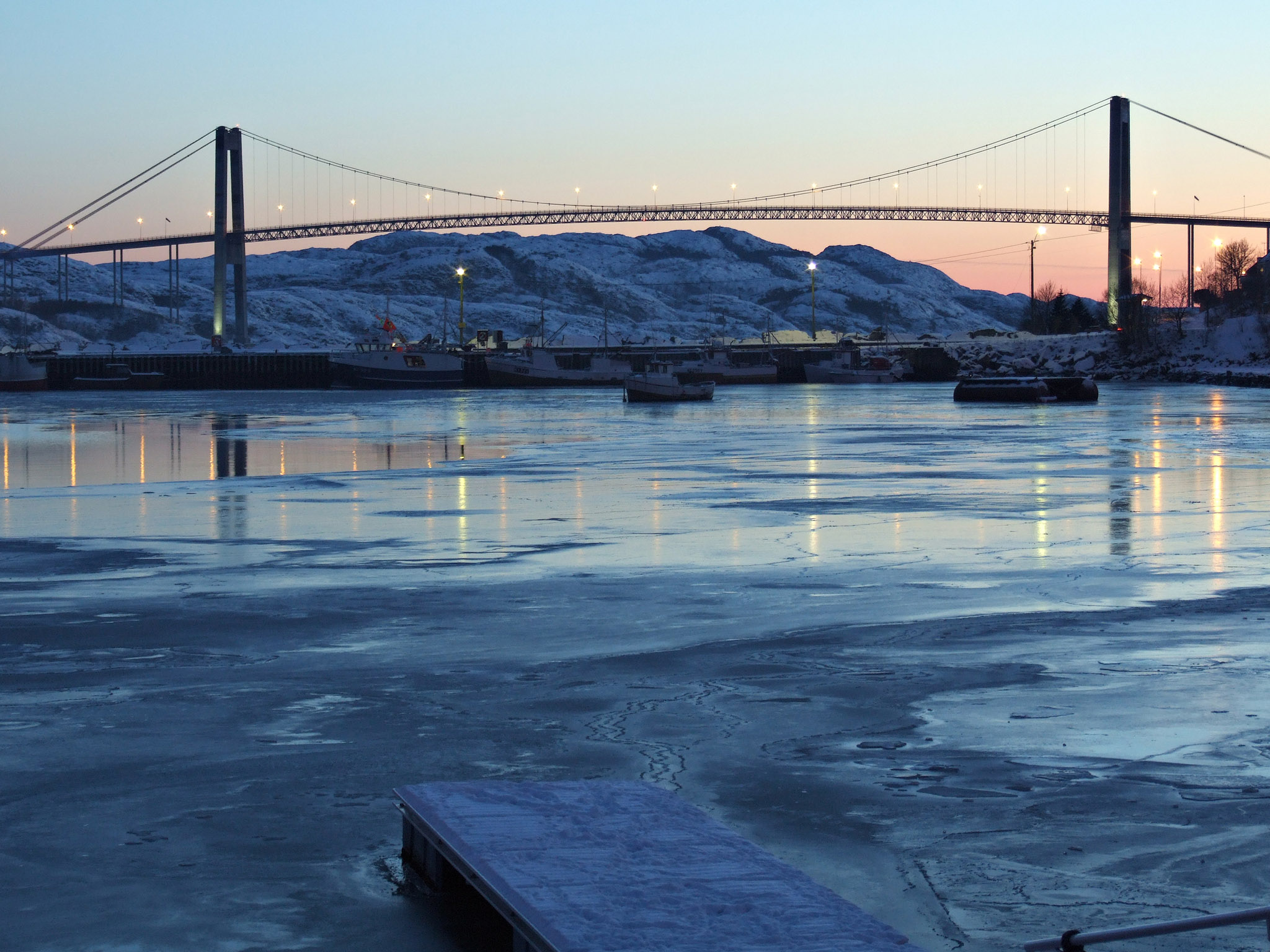 The Nærøysund Bridge is a suspension bridge that crosses Nærøysundet between Marøya and Vikna in Nord-Trøndelag county in Norway